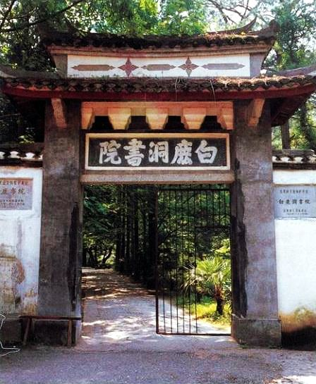 Gateway at Lushan Geopark, in Jiangxi. A World Heritage Site in China.